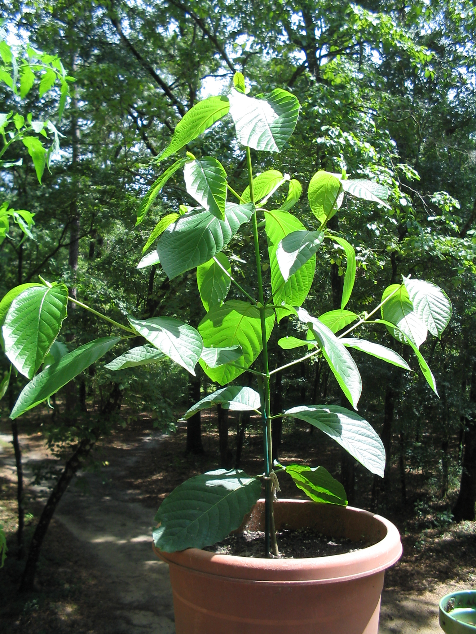 Small Mitragyna speciosa in pot.